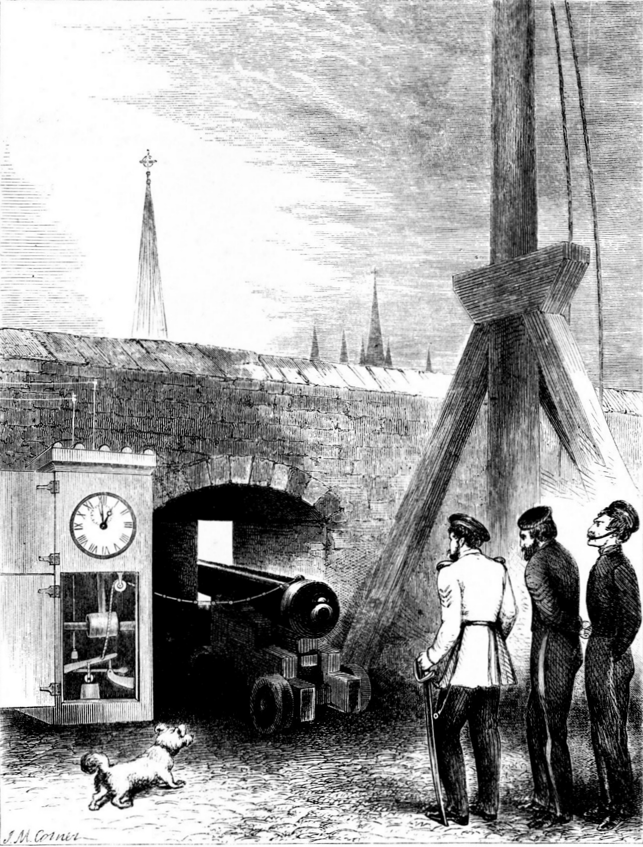 Method of firing the One O'Clock Gun from Edinburgh Castle, actuated by electrical signals from the Calton Hill Observatory